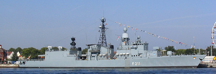 The German frigate Köln (F 211) on 9 August 2003.